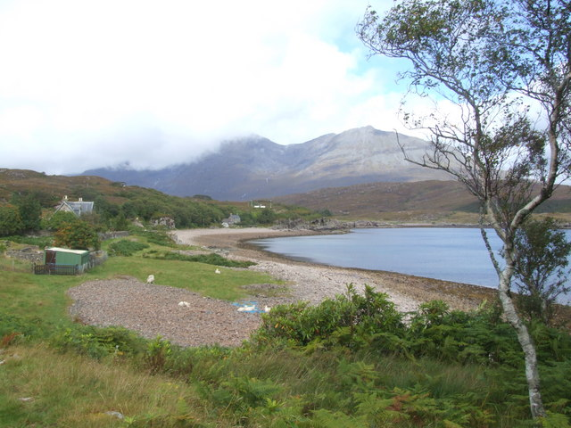 Soay South Harbour (Camas nan Gall)